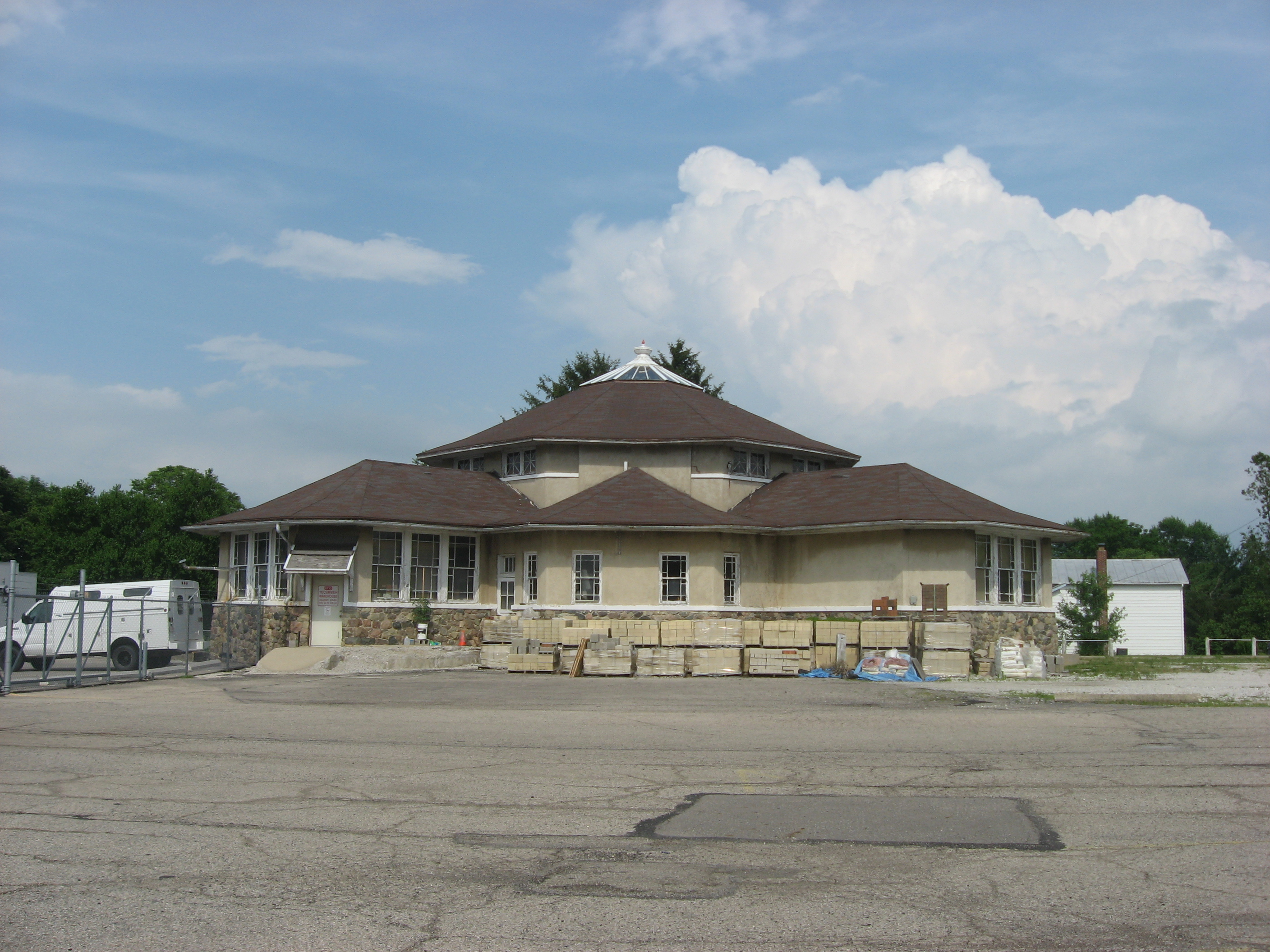 Western side of the former Olive Branch High School, located at 9710 W. U.S. Route 40 on the campus of Tecumseh High School southeast of New Carlisle in Bethel Township, Clark County, Ohio, United States. Built in 1908, it is listed on the National Register of Historic Places. Note the large thunderstorm in the background; it was at least 15 miles (24 kilometres) away to the east.